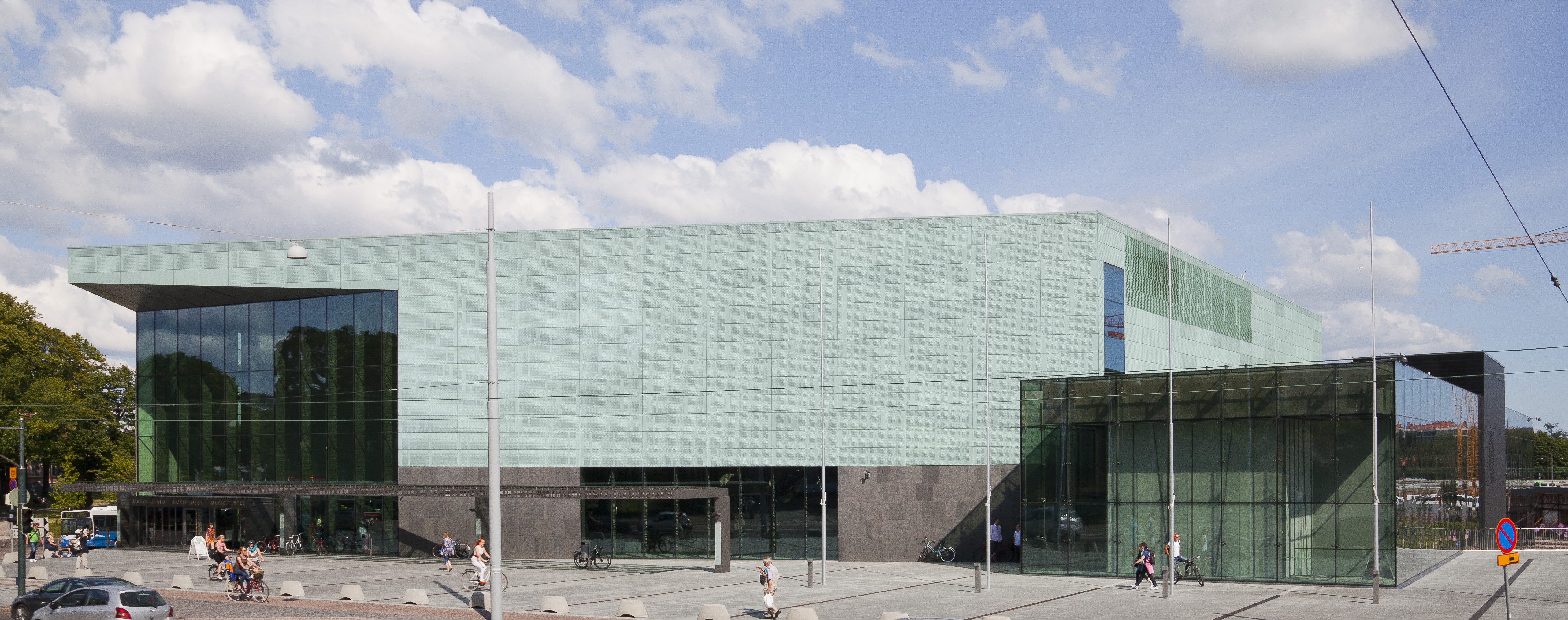 Helsinki Music Center, Helsinki, Finnland